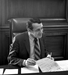 Harvey Milk filling in for Mayor Moscone for a day in 1978